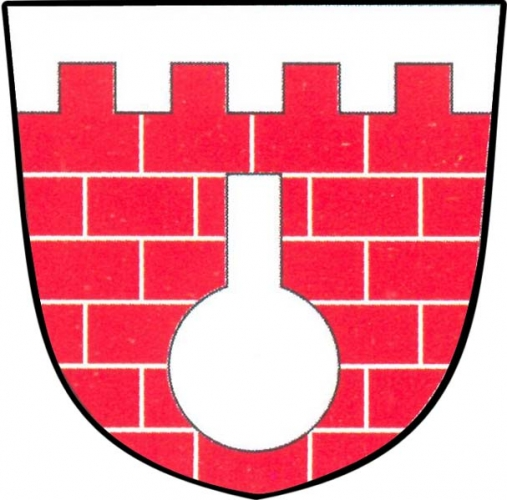 Coat of arms of Klenovice na Hané, Prostějov District